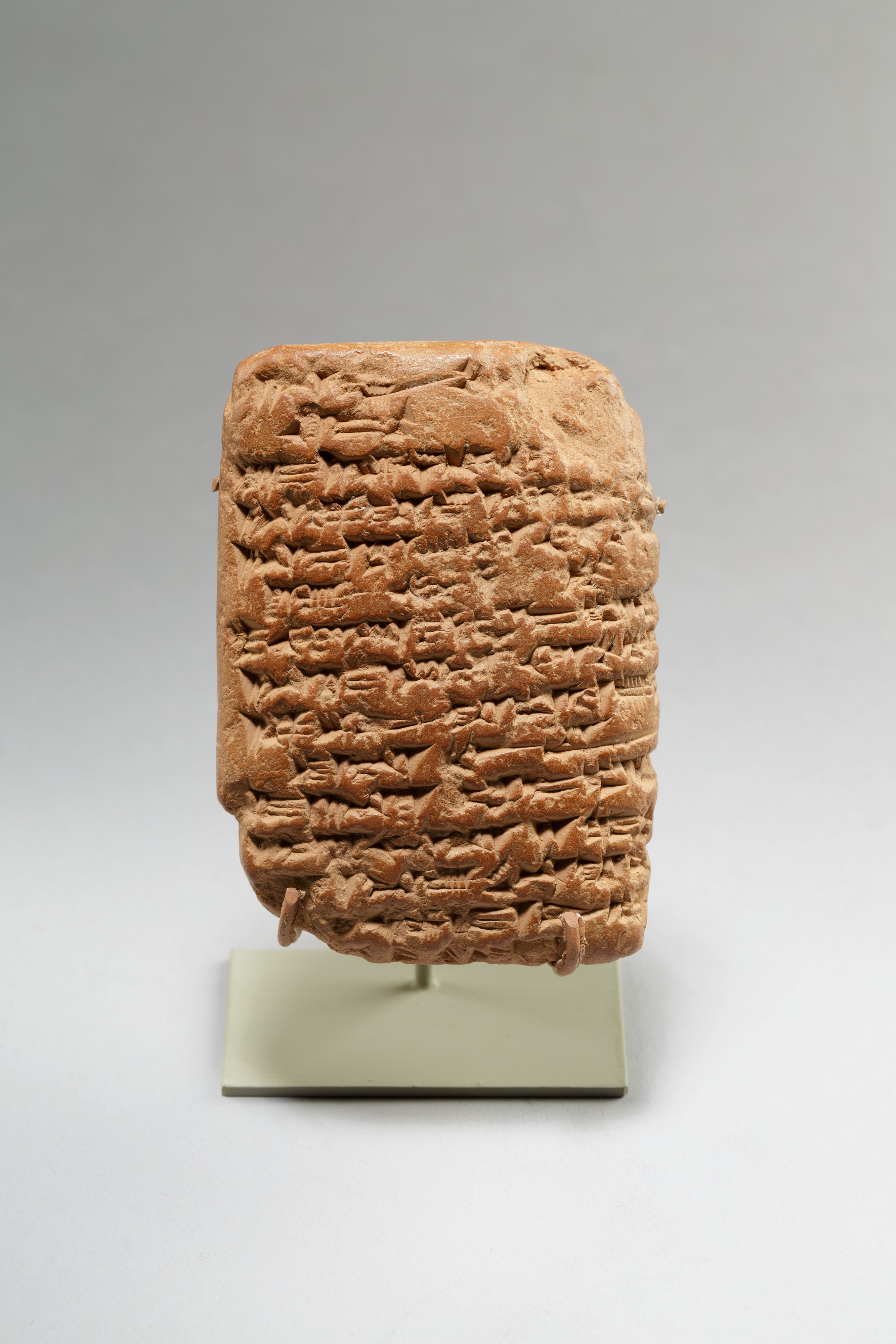 Tablet, Amarna letter